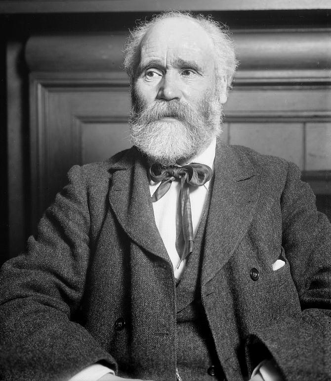 James Keir Hardie, a Scottish socialist and labour leader